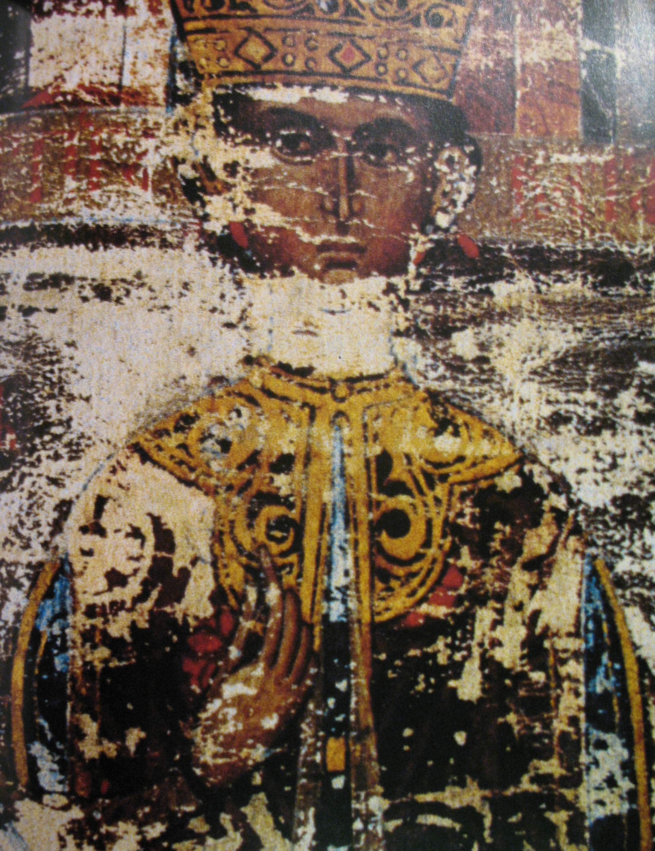 The ilustration of Katarina Branković in Esphigmenou charter from 1429.